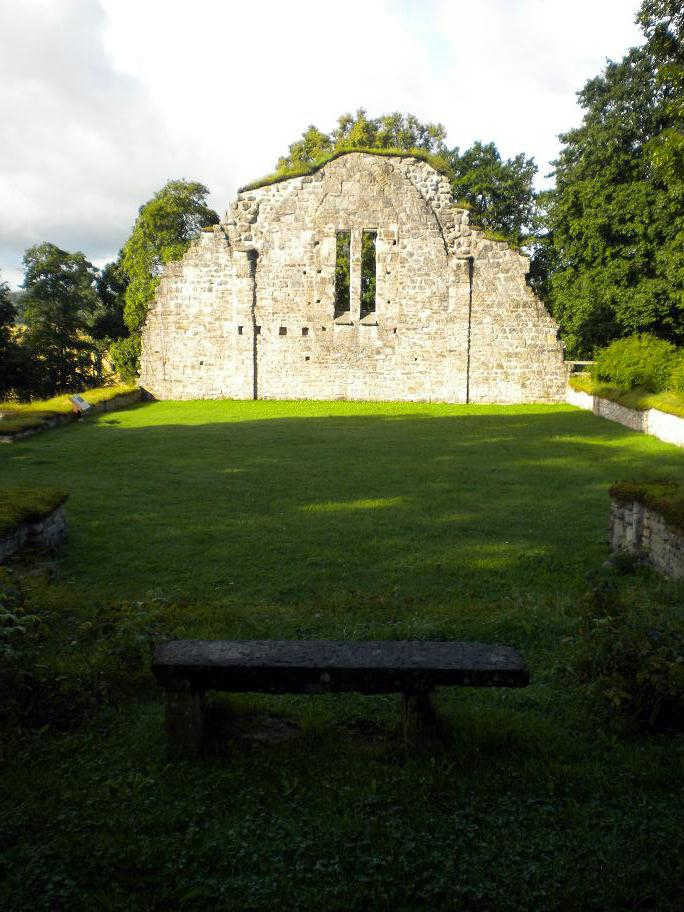 Ruins of Riseberga Abbey, as released by image creator RistessonPlace: Lekeberg, Fjugesta, Sweden